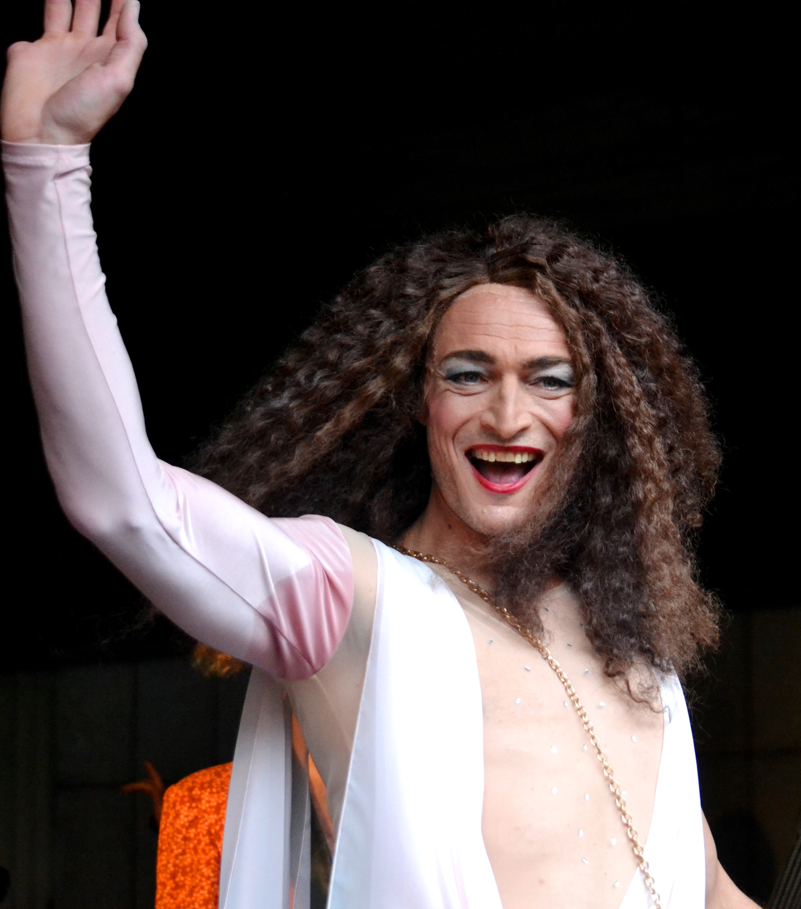 Karel Dobrý, Czech actor